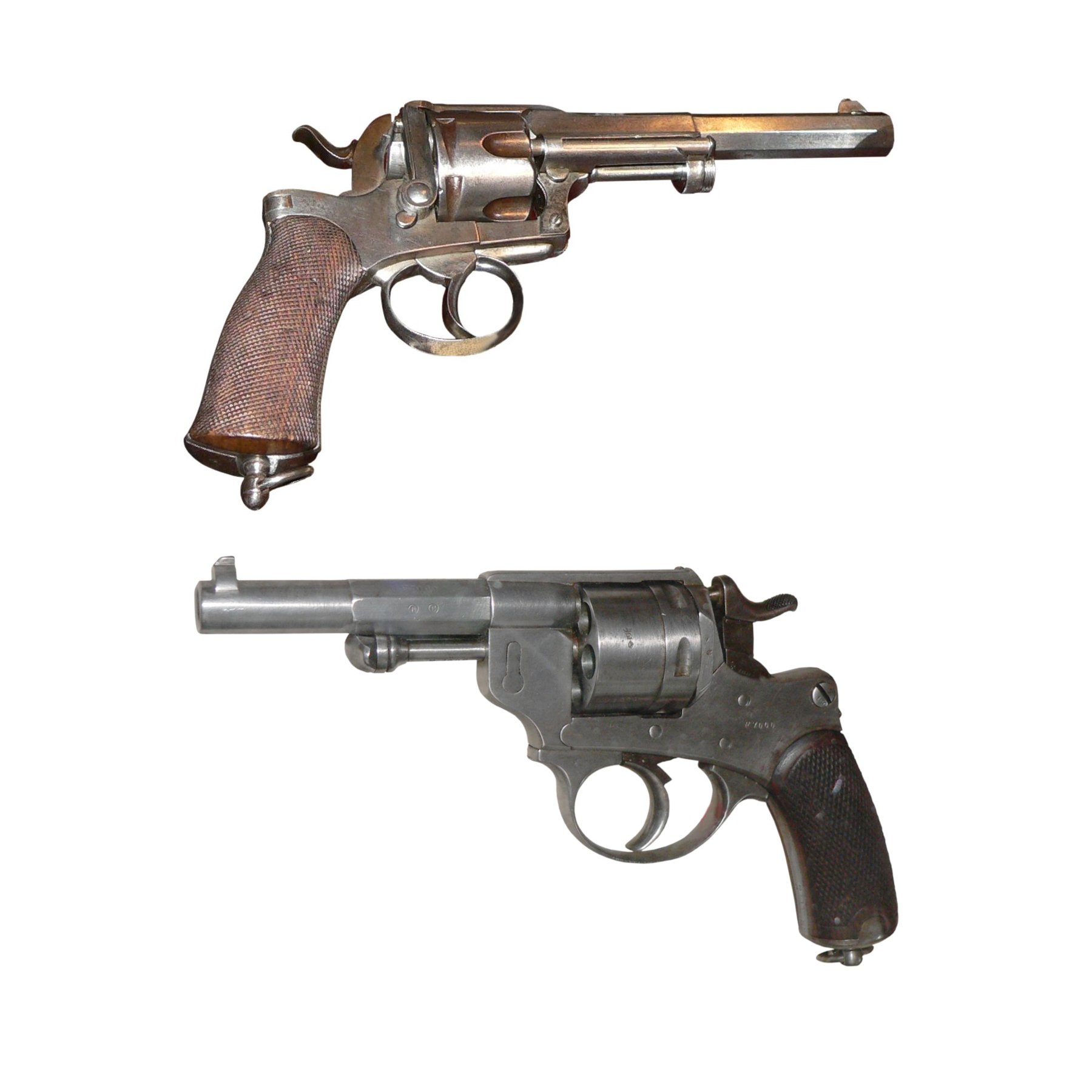 MAS 1873 revolver (bottom) and 1874 (top)